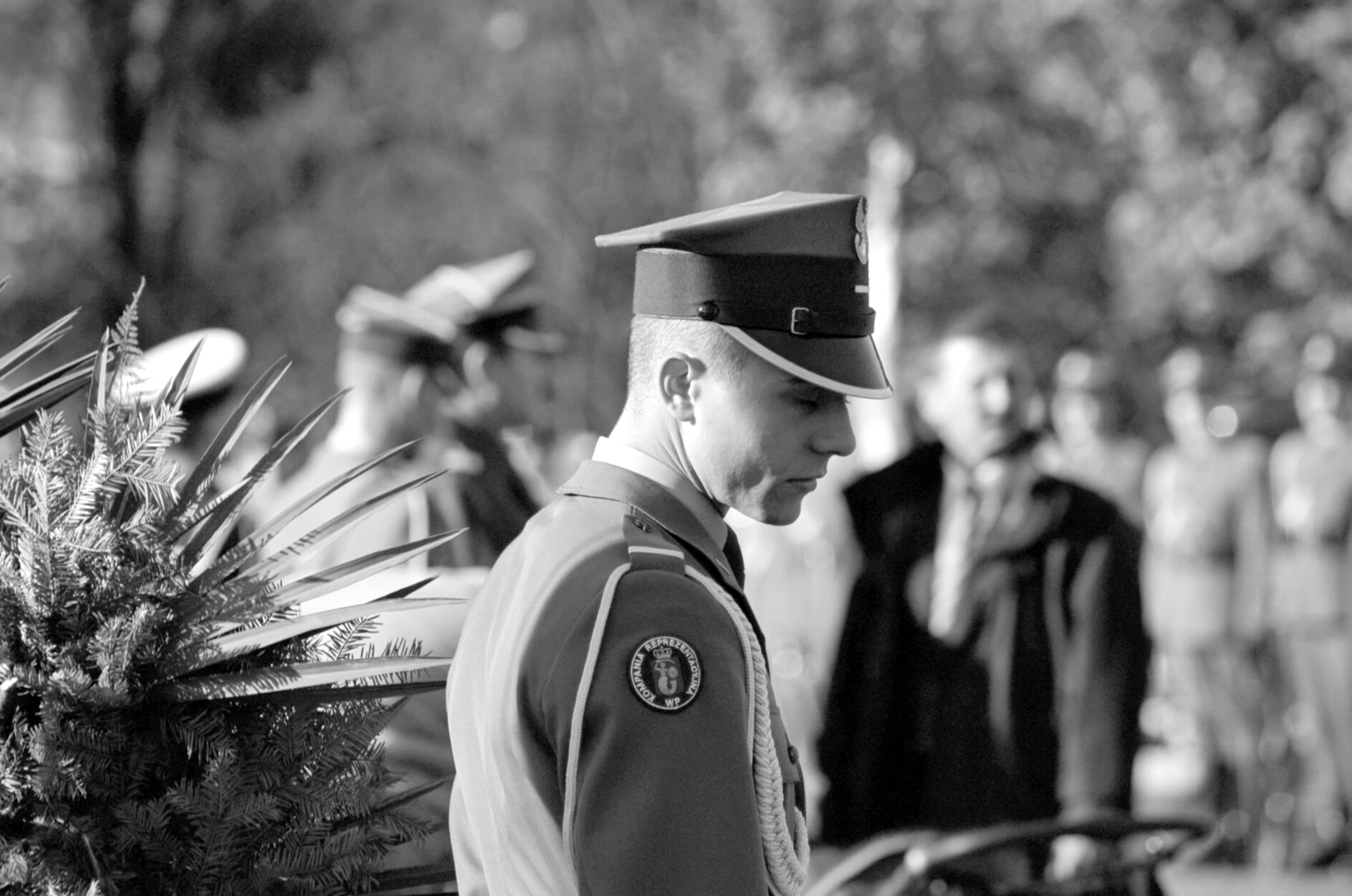 Soldier of the Polish Army Honour Guard Company wearing a rogatywka cap. Made with Canon AE1 B&W, Ilford 400, lens 150; scanned from the film by the fotolab at the corner. January 2005, in front of the Tomb of the Unknown Soldier in Warsaw at Piłsudski Square, during some Romanian minister's visit.